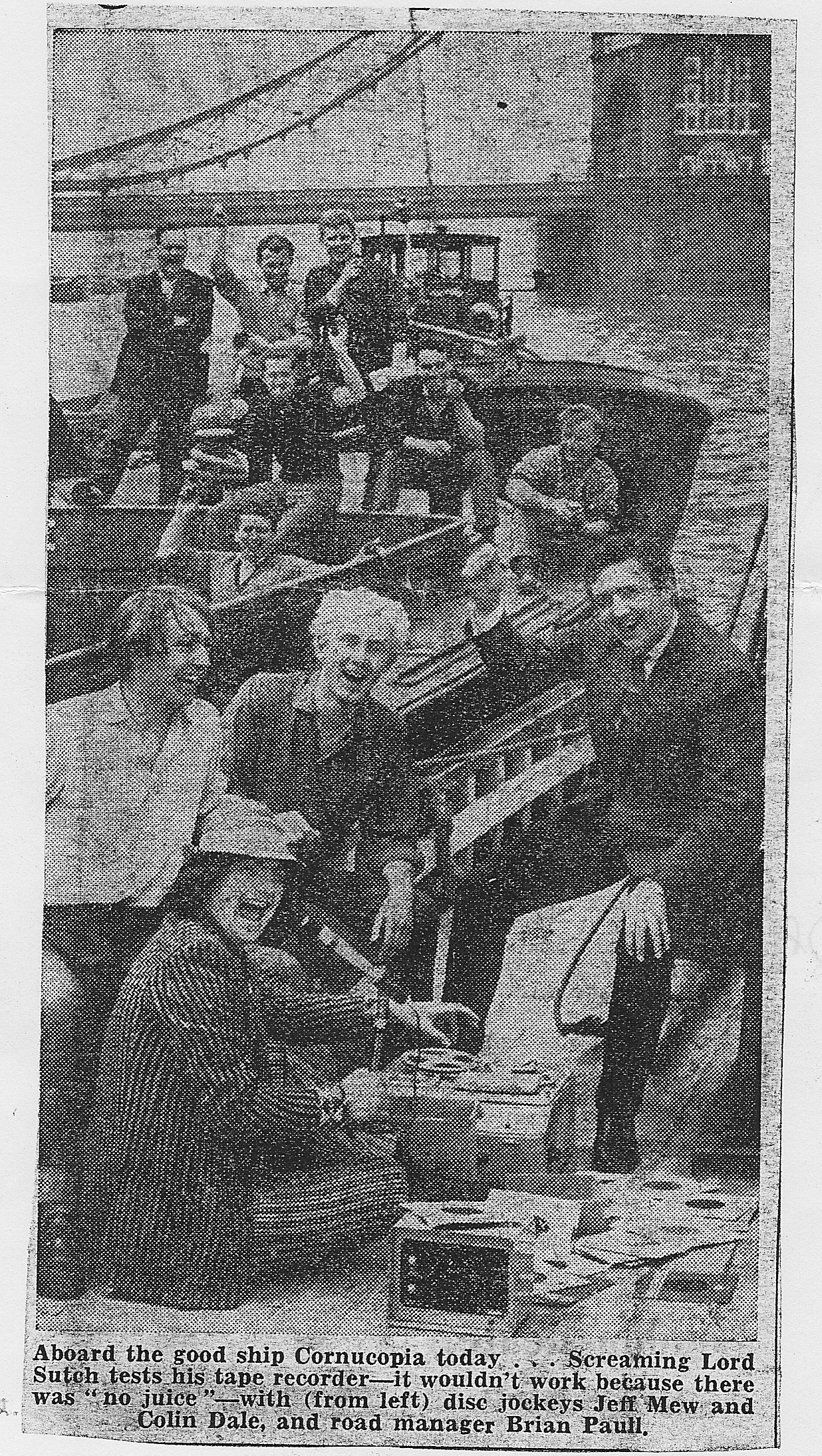 Screaming Lord Sutch and roadies sailing the Thames; foreground: David Edward Sutch, 2nd row (left to right) Geoff Mew, Brian Paull